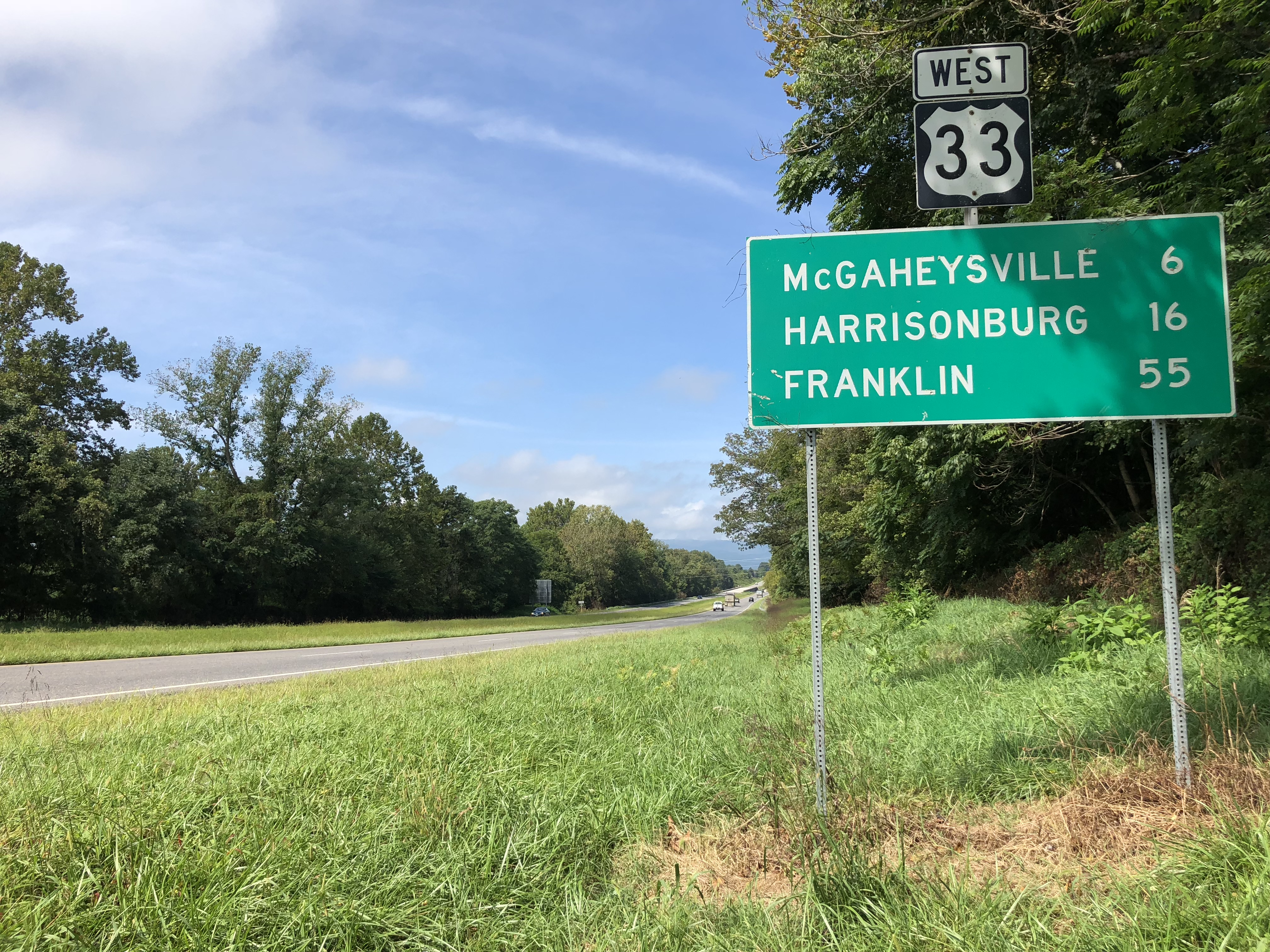 View west along U.S. Route 33 (Spotswood Trail) just wets of 5th Street in Elkton, Rockingham County, Virginia